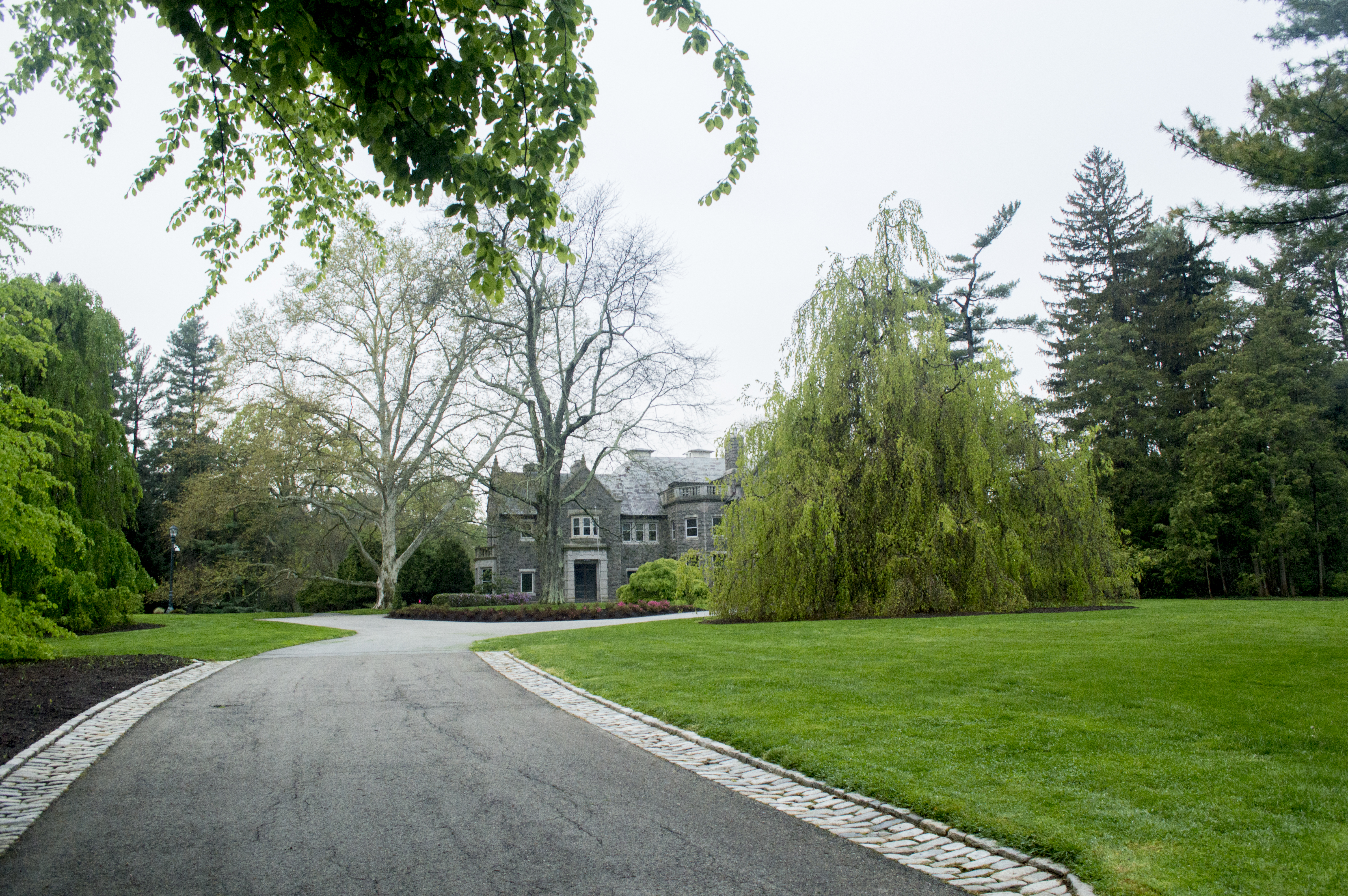 The Tudor Revival mansion at Stoneleigh Photo by Mae Axelrod